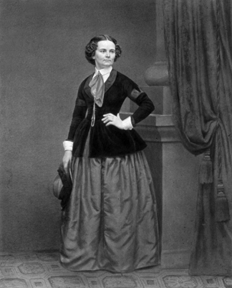 Portrait of Harriet Goodhue Hosmer (1830-1908), American sculptor